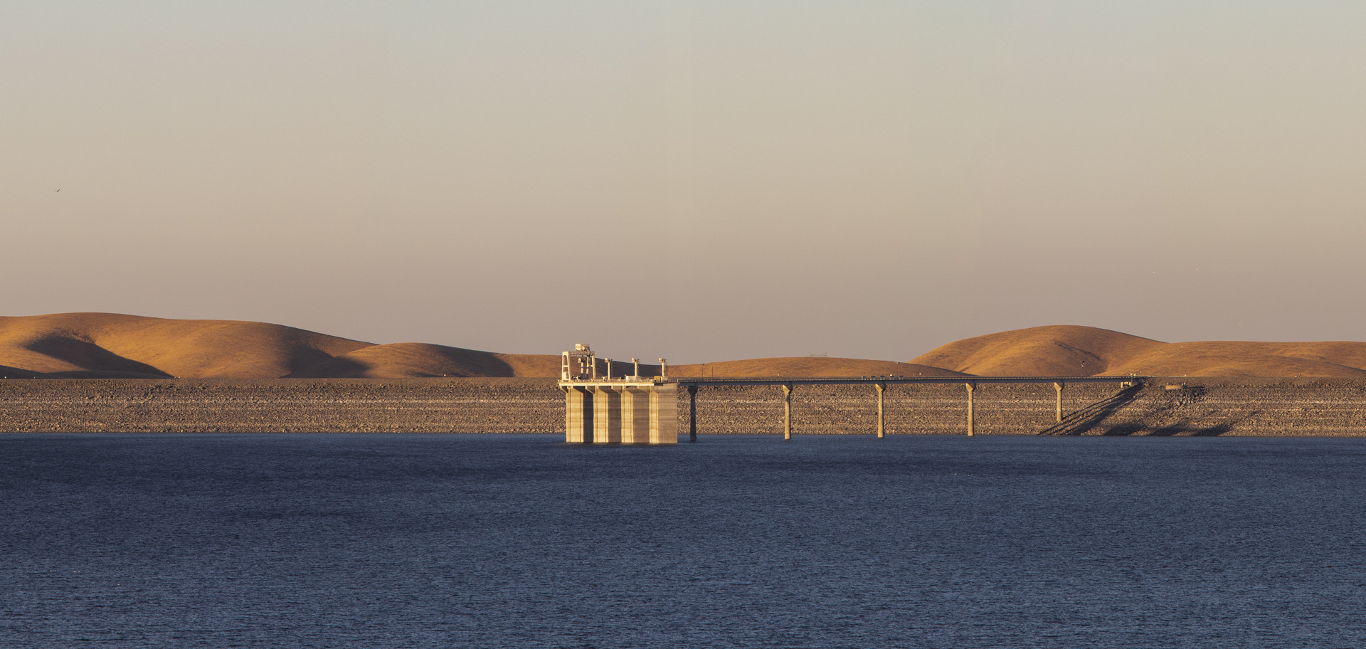 The San Luis Reservoir near Los Banos, California. The intake structure can be seen near the center of the photograph.